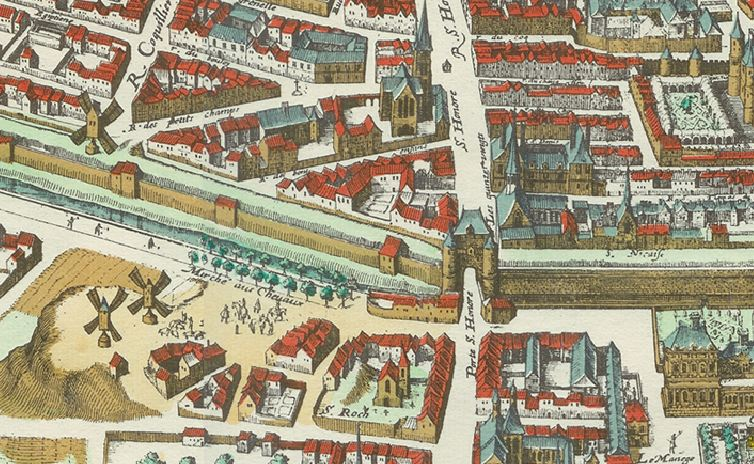 The butte des Moulins (=Mills hill) on the plan of Mérian of Paris (France) (1615).